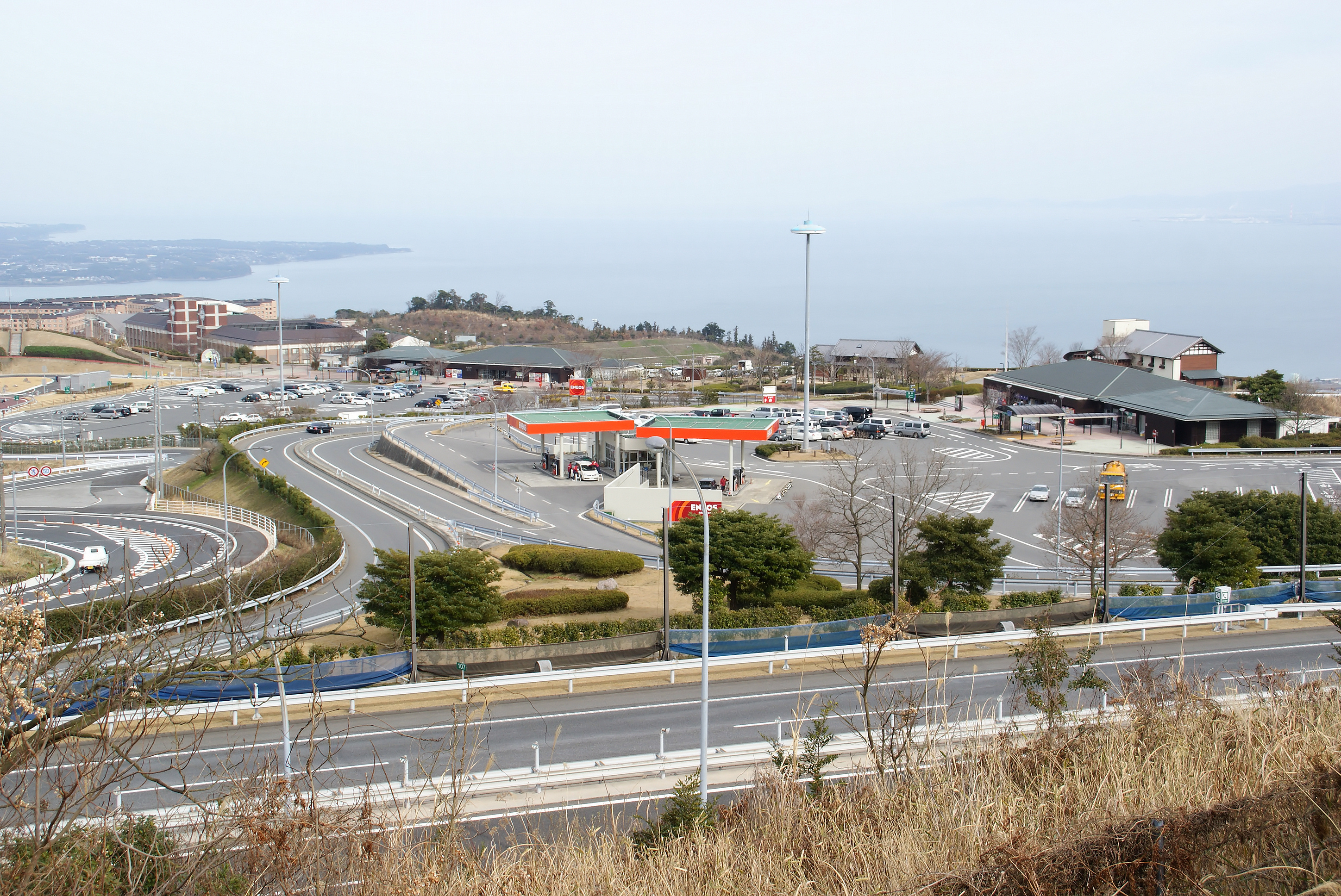 Beppuwan Service Area on the Oita Expressway in Beppu City, Oita Prefecture, Japan